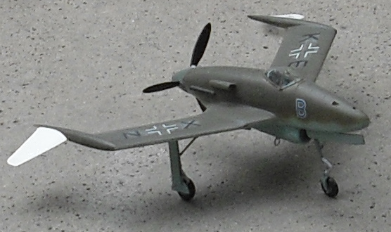 Model photo of a Blohm & Voss P.208